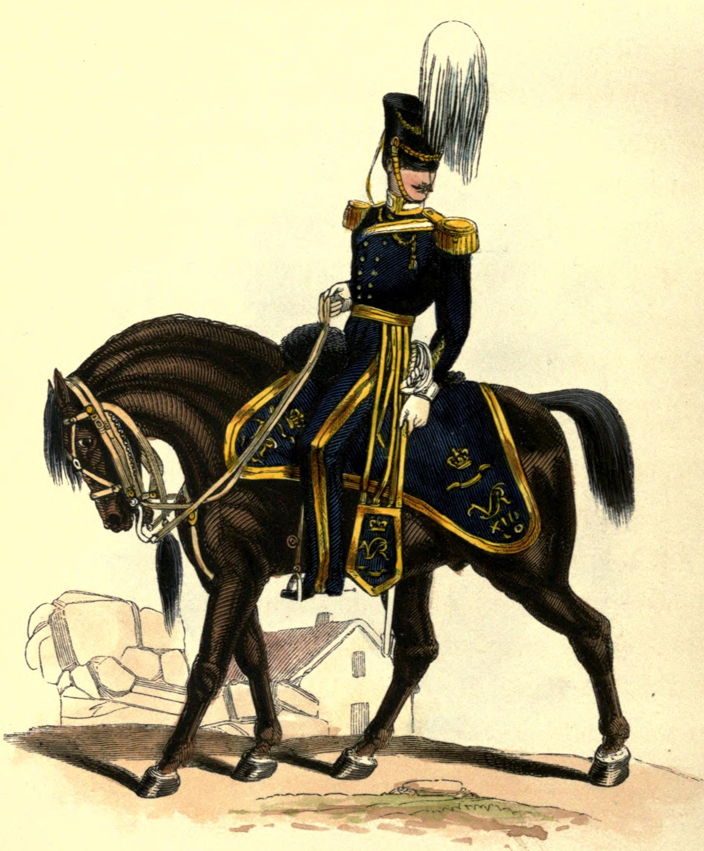 Uniform of the 13th Light Dragoons.